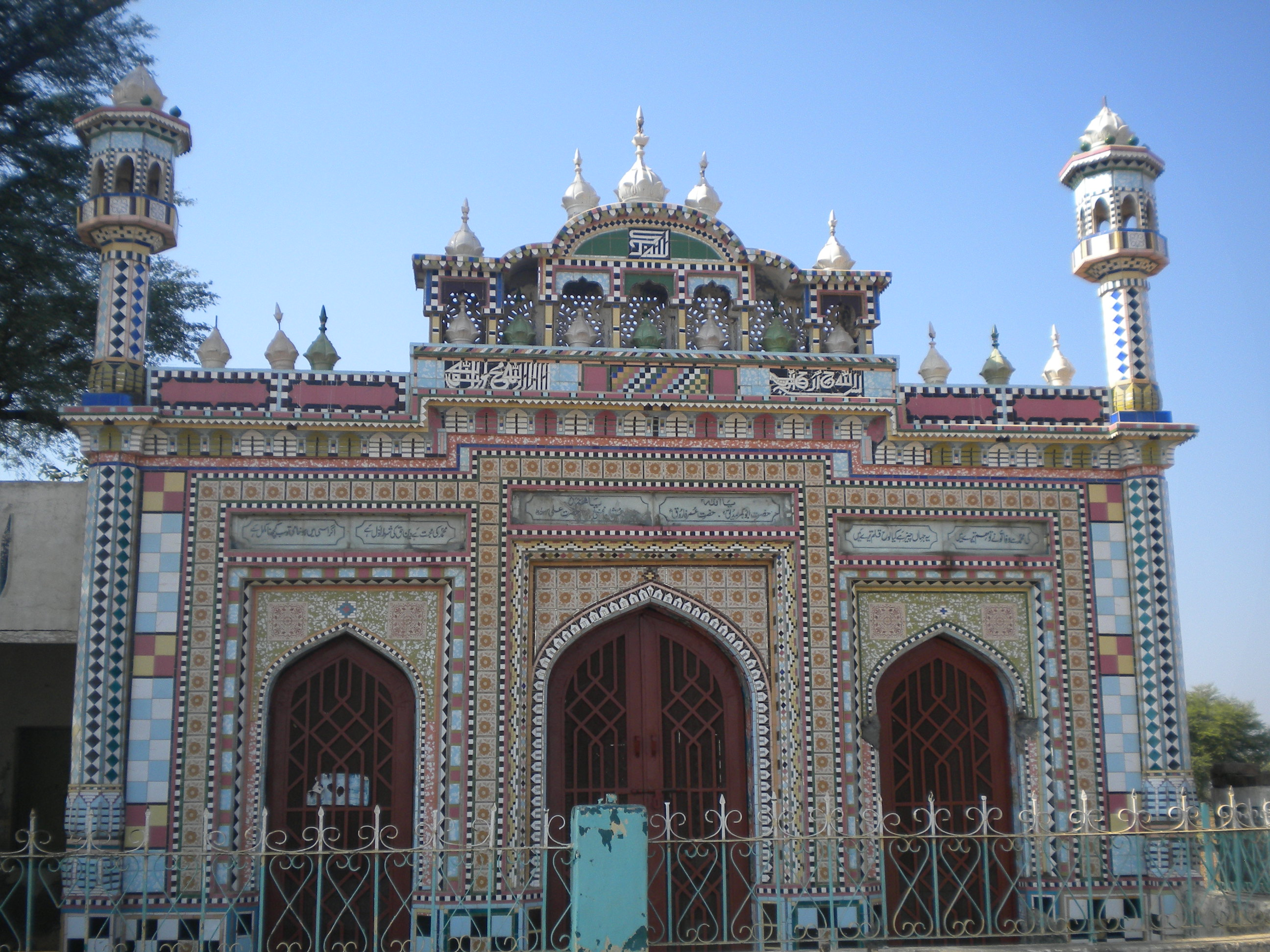 A punjabi Mosque in Jhelum Punjab Pakistan